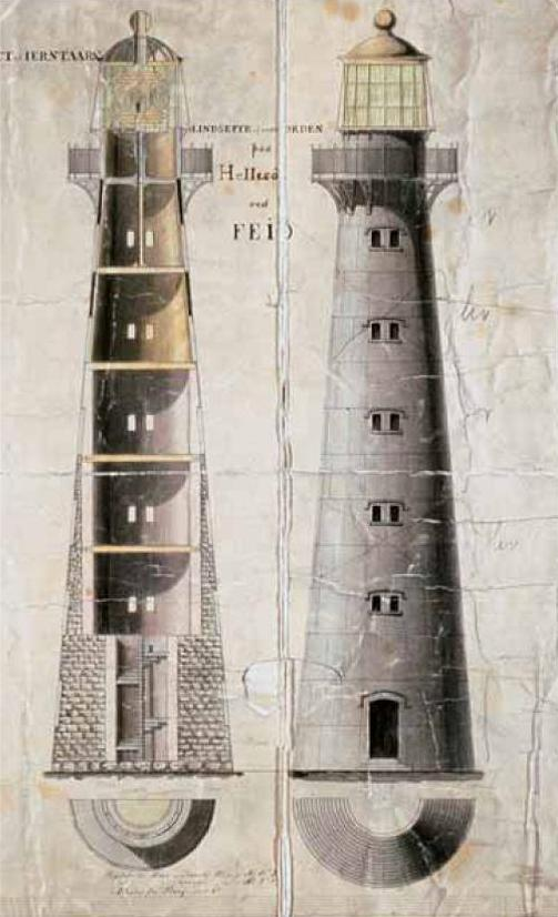 Original drawing of Hellisøy fyr, Fedje, Norway (1852).